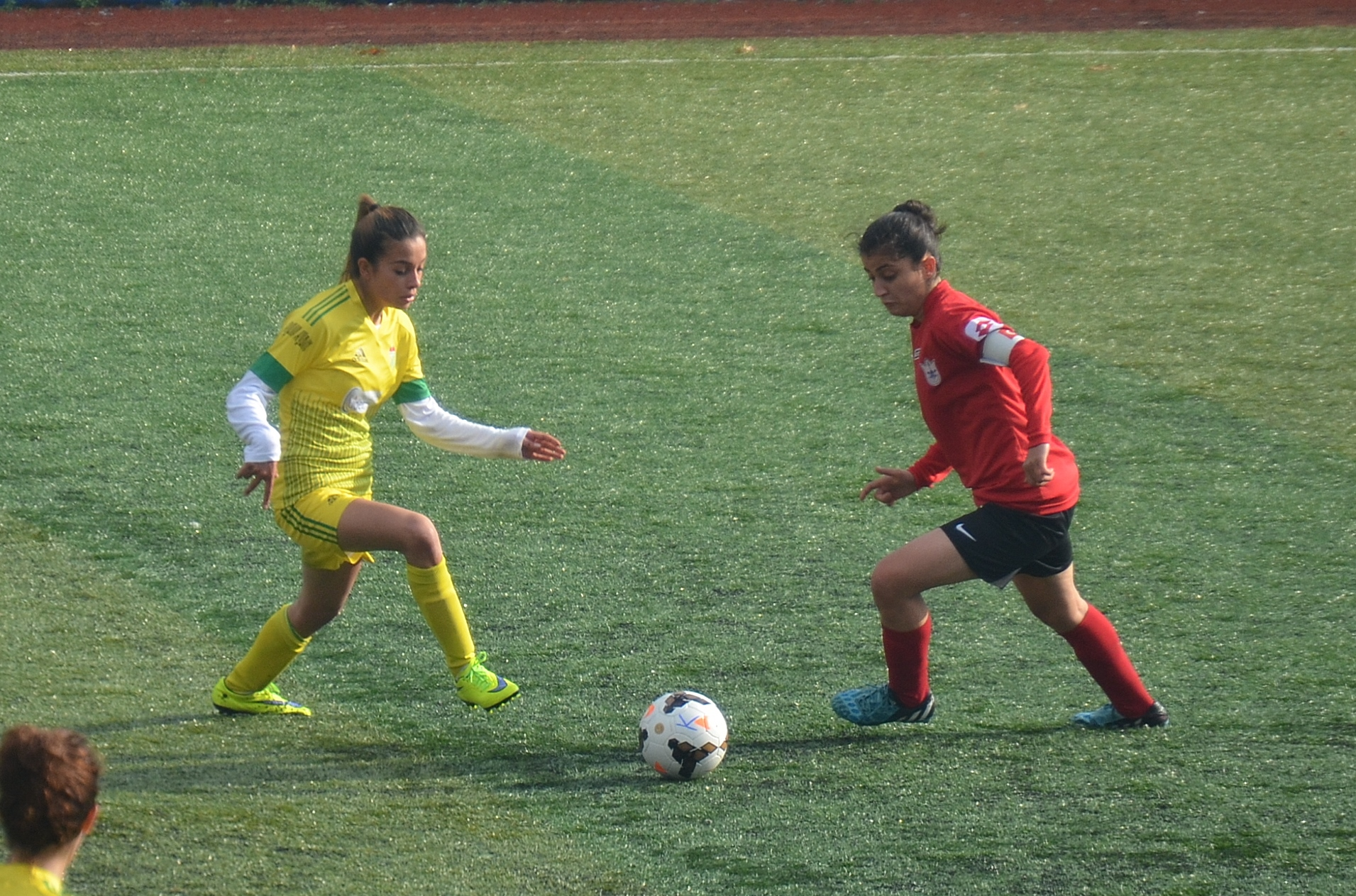 Kezban Tağ (left) of Kireçburnu Spor and Didem Taş (right) of Konak Belediyespor playing in the 2015-16 match